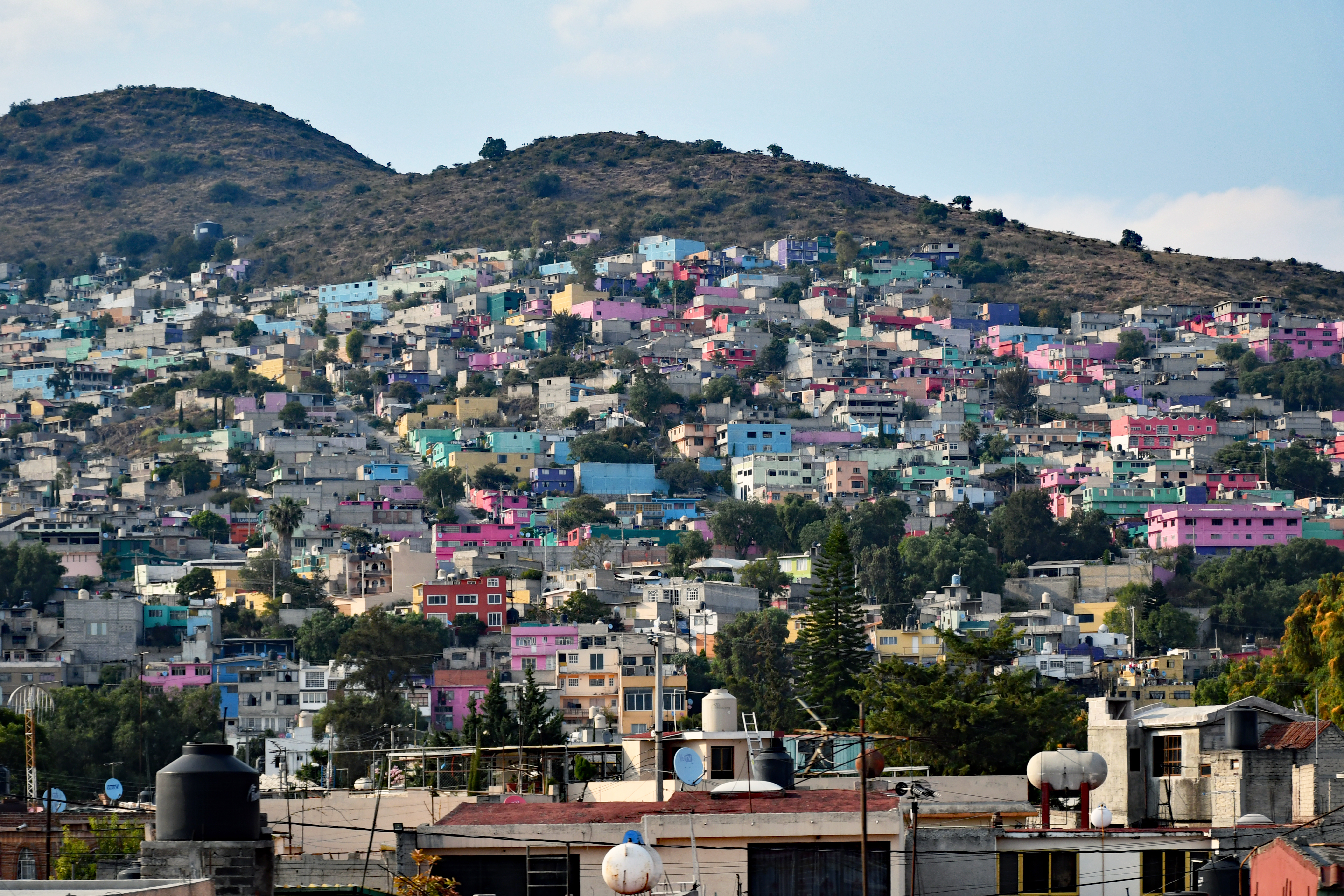 Ecatepec de Morelos (State of Mexico, Mexico) viewed from the autopista 85D.